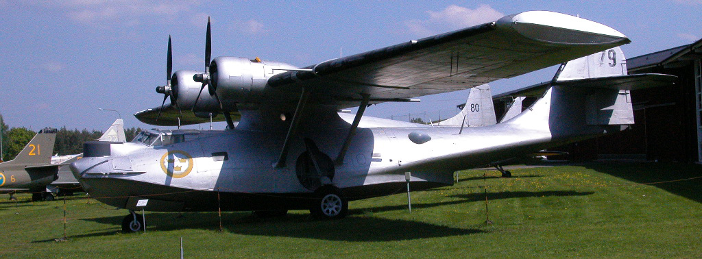 (Cropped version of Tp_47_47001_Kapten_Kaos.jpg) Swedish Air Force Tp 47 (Consolidated PBY-5A Catalina) Amphibious carrier/rescue aircraft, military reg. no. 47001, in service in Swedish Air Force between 1948 and 1966. Now on permanent, static display at Flygvapenmuseum (Swedish Air Force Museum), Malmslätt, Linköping, Sweden. Photo taken in May 2003, by me, Kapten Kaos. I hereby release this image into the Public Domain. No rights reserved.